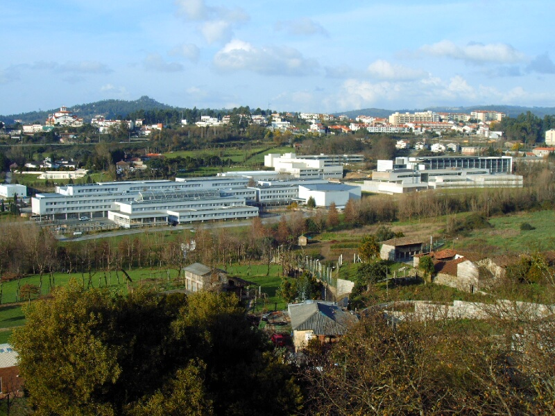 Campus of Azurém of University of Minho, Guimarães, Portugal